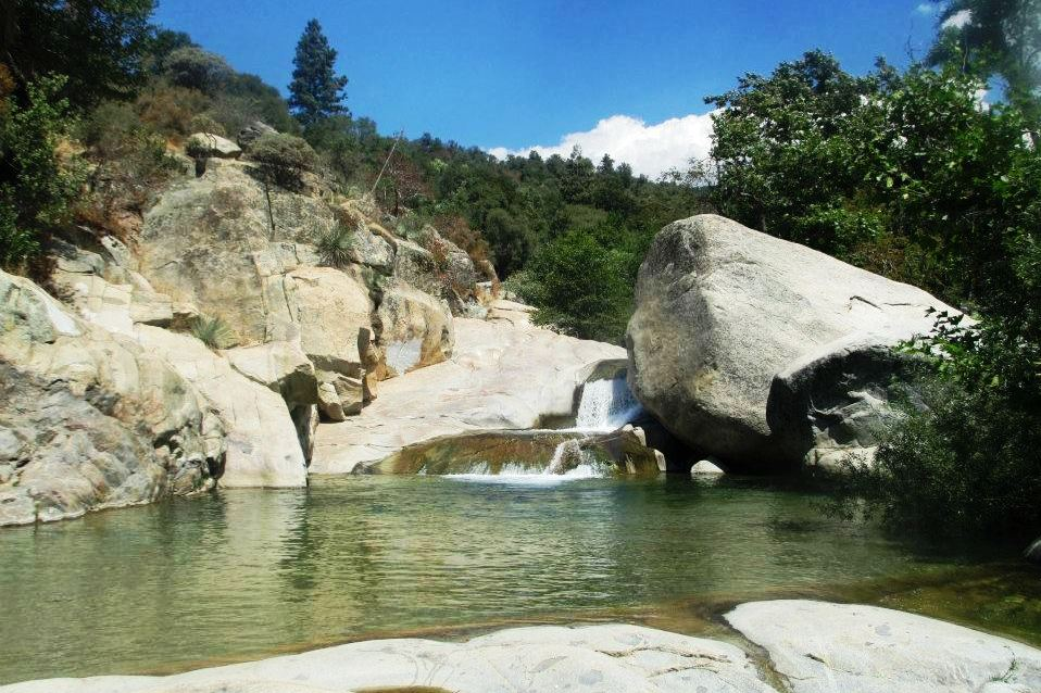 california camping waterfall slides tuleriver